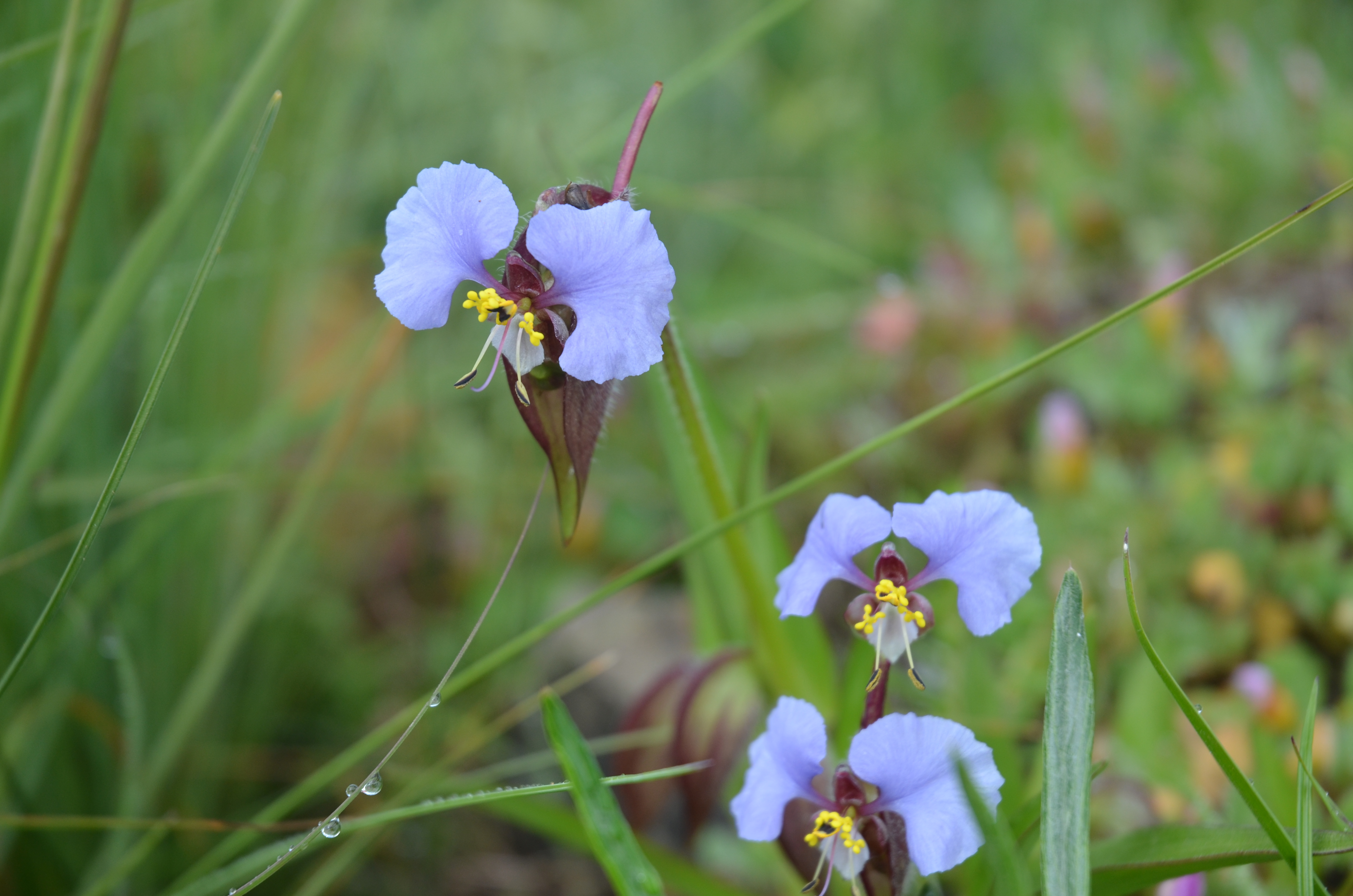 Picture taken in Kitulo National Park.